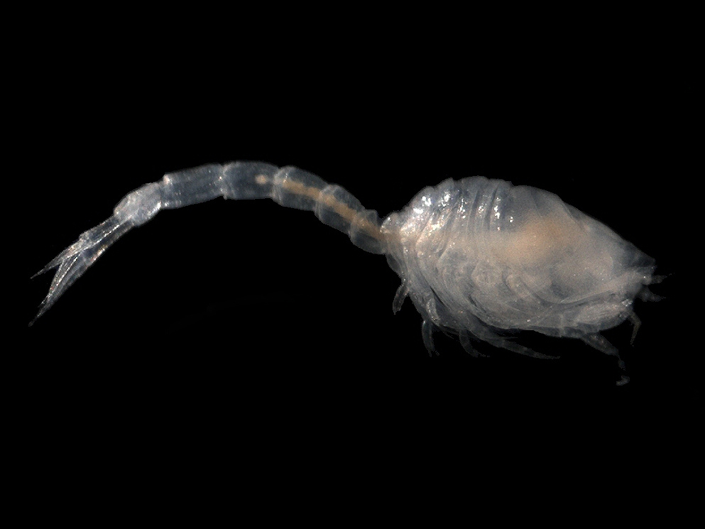 This cumacean was sampled on the Belgian Continental Shelf in 1997. Taken with Axiocam (Zeiss) camera mounted on a Zeiss Stemi C-2000 binocular microscope. Length: ~4 mm.